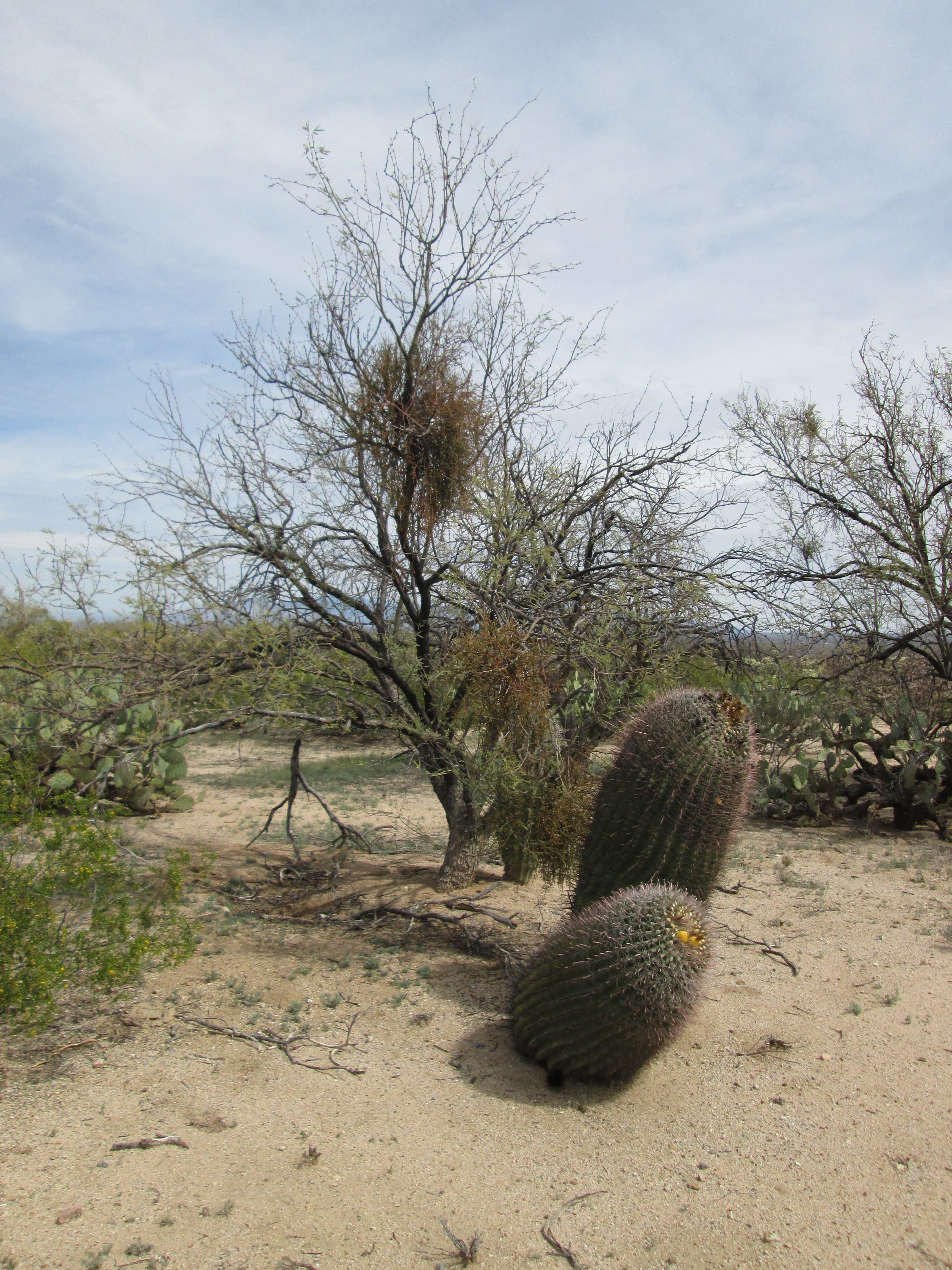 A mesquite tree with desert mistletoe next to two large fishhook barrels. The mesquite tree is also mothering a small saguaro, which is behind the barrel cactus. Sahuarita, Arizona March 4, 2014